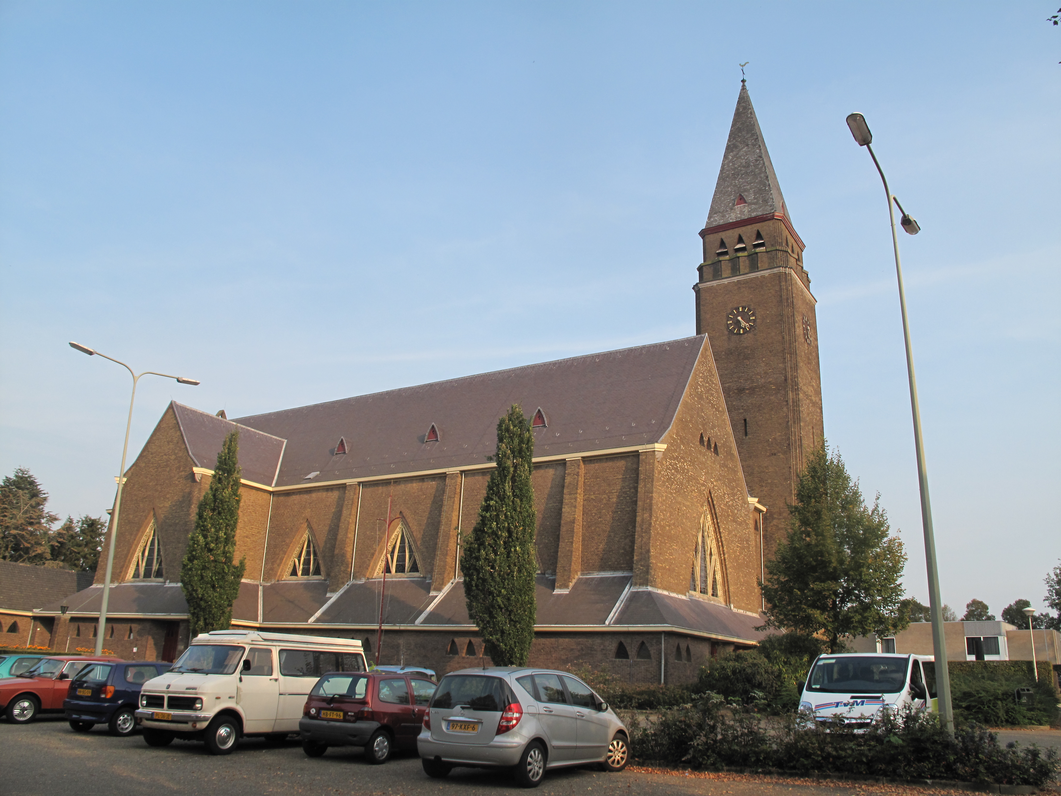 Munstergeleen, church: Sint Pancratiuskerk